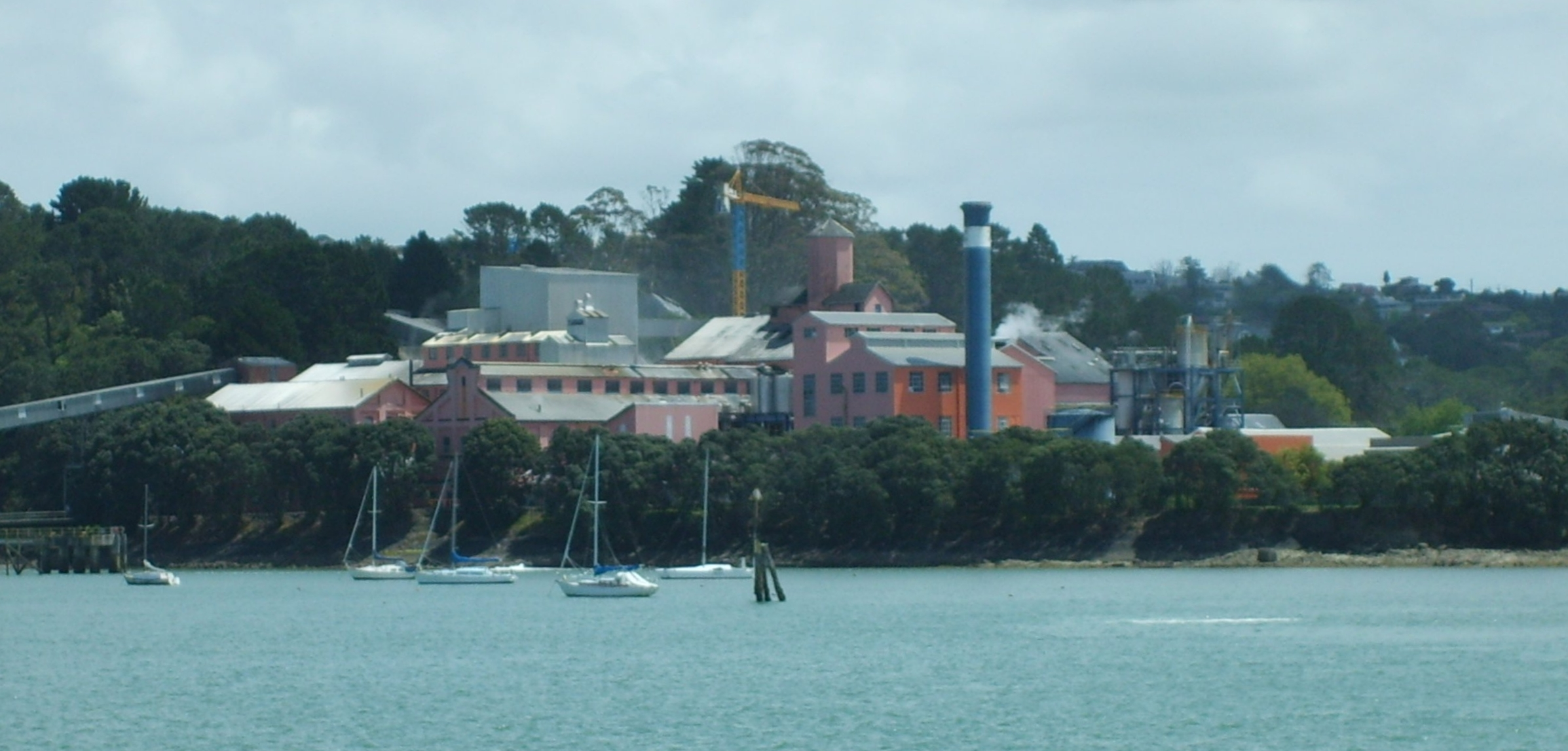 Chelsea Sugar Refinery from Birkenhead Wharf